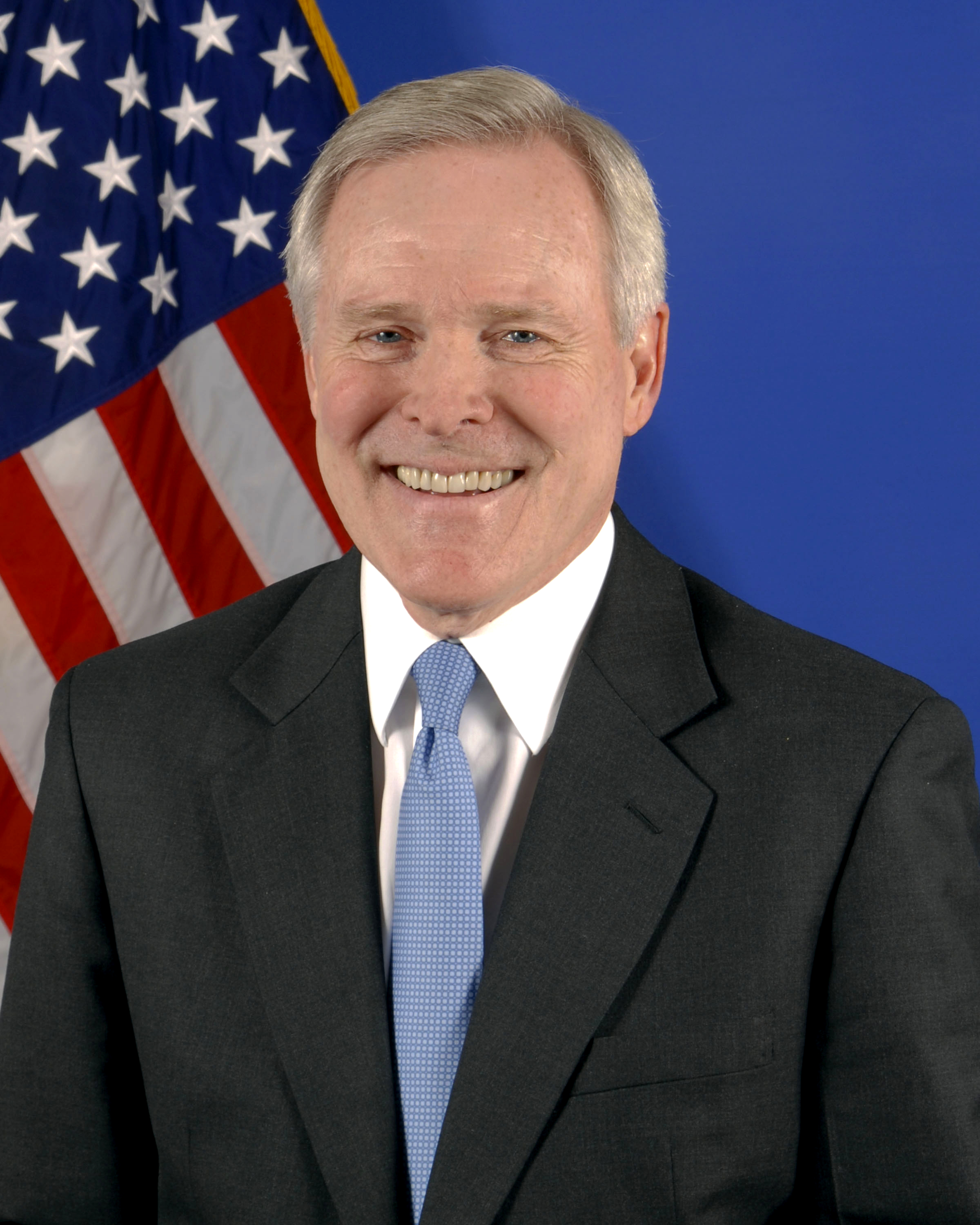 A photo of Ray Mabus, Navy Secretary (2009-)